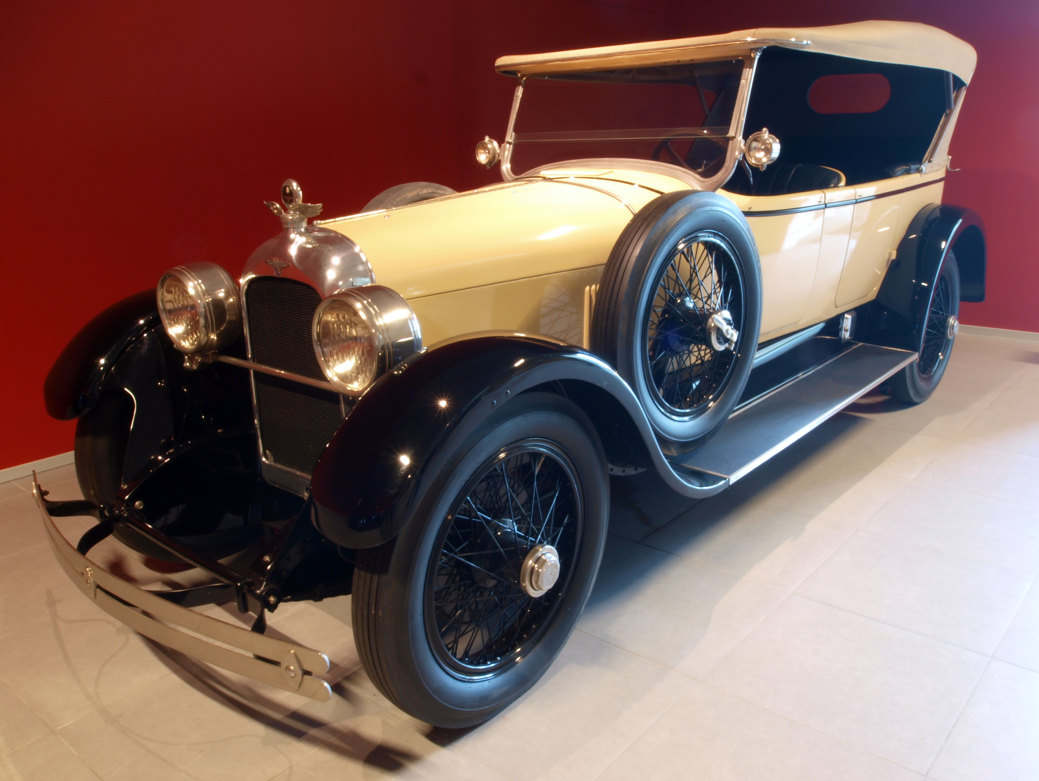 Photographed at the Louwman museum / Louwman Collection, The Netherlands.